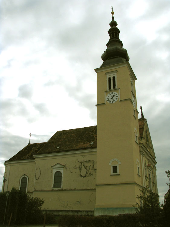 St. Nicholas Church, Jastrebarsko, Zagreb County, Croatia